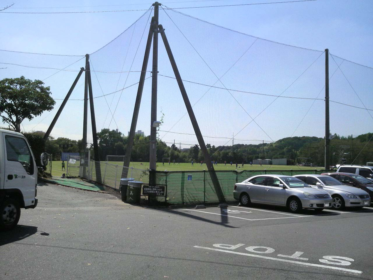 yokohama FC ground